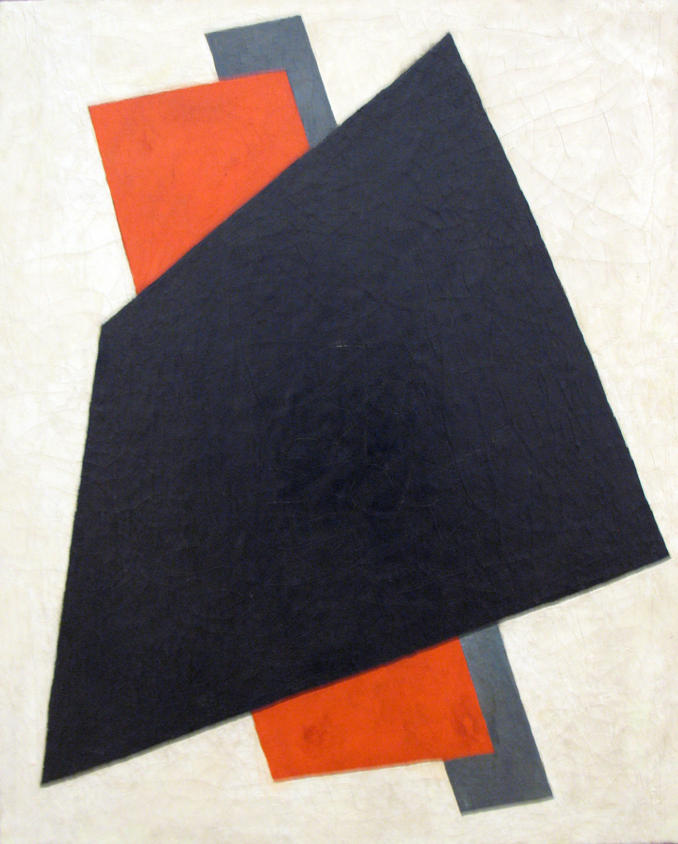 The pictorial Architectonics